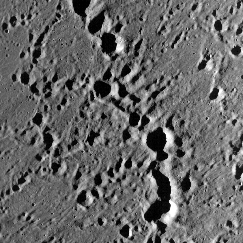 A region on the Moon, covered with secondary craters of a big crater Copernicus (situated behind the lower left corner). The biggest visible craters are named as satellite craters of Stadius: Stadius T, F, S, E, R and P. Photo by Lunar Reconnaissance Orbiter, made with Wide Angle Camera on 8 January 2010 from altitude 39 km. Sun elevation is 9.0°. Width of the photo is 50 km, north is up.